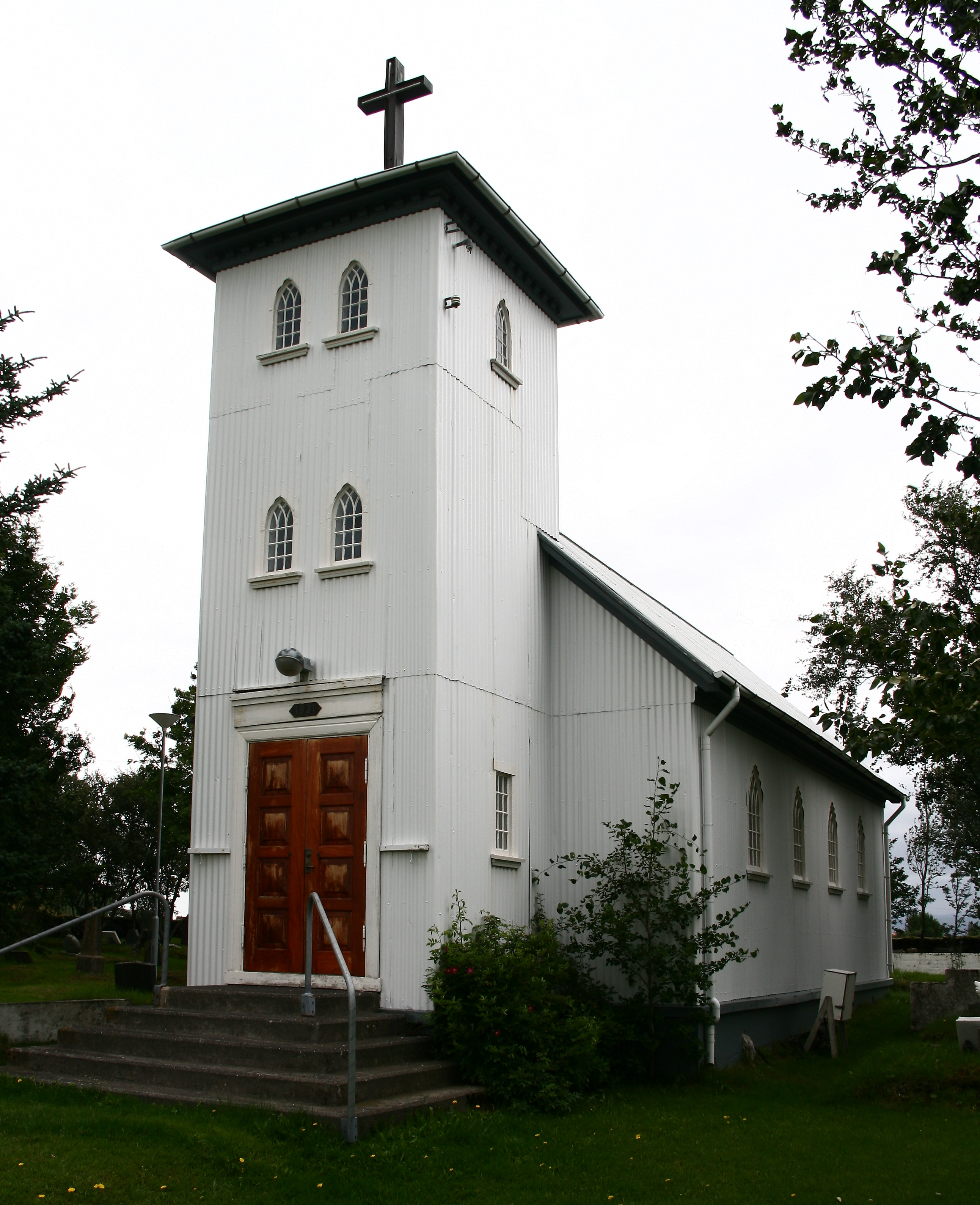 Church at Skarð, near road 26 towards Hekla, on Iceland.